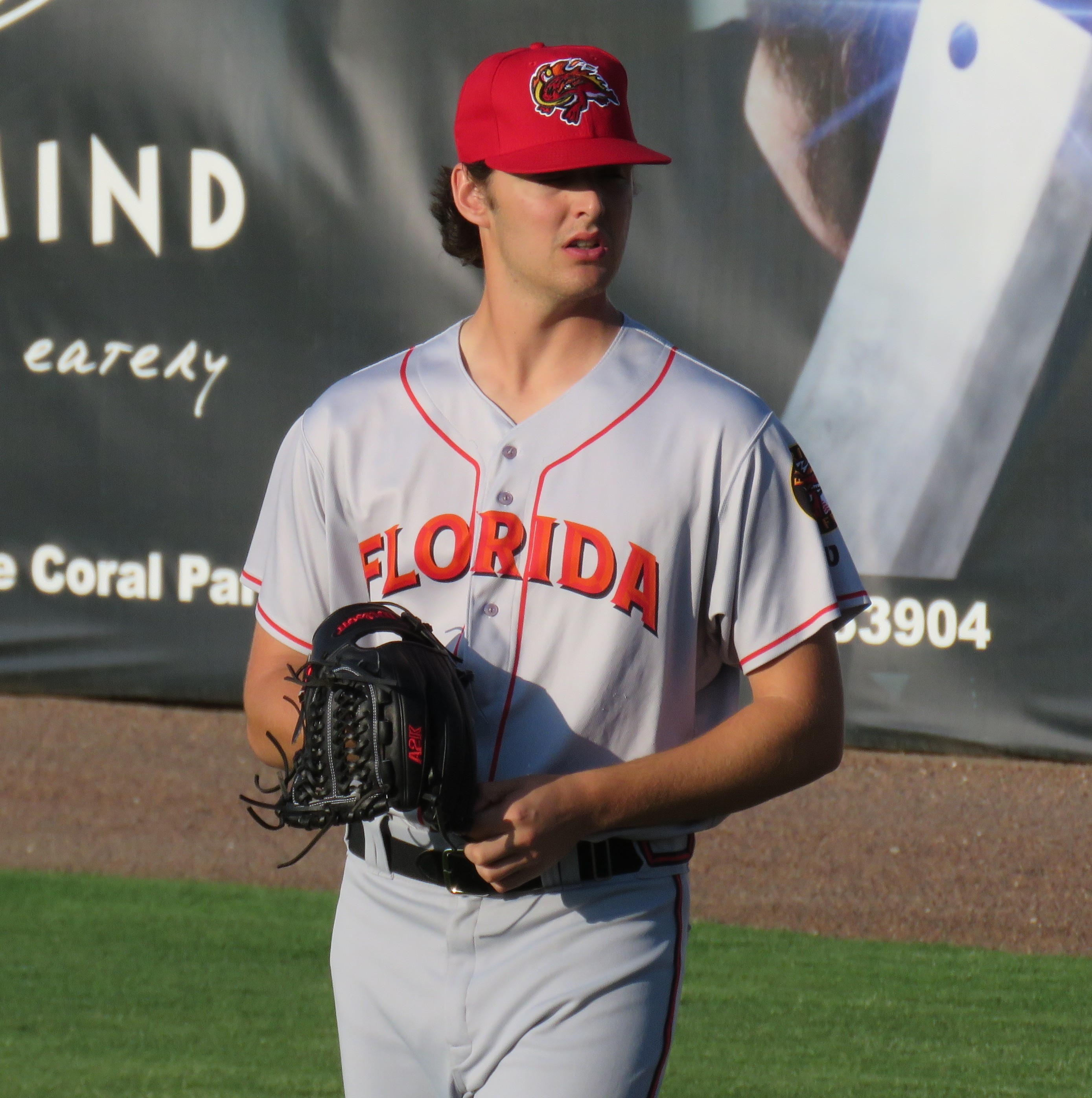 Anderson in the outfield